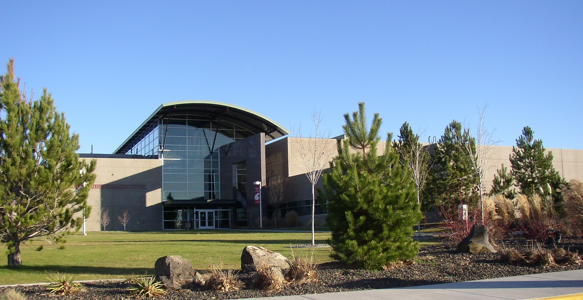 Photos of Richland, Washington taken on a lovely 50°F Sunday, January 15, 2006 for the specific purpose of being uploaded to the Wikipedia. All rights are released; they are henceforth & forever in the public domain until the sun does not rise in the east and the rivers no longer run to the sea. The Pacific Northwest National Laboratory is operated for the U.S. Department of Energy’s Office of Science by Battelle Memorial Institute. This photo shows the Consolidated Information Center (CIC), which is operated jointly by Pacific Northwest National Laboratory and Washington State University (WSU). It is located on the WSU Tri-Cities campus in Richland. The CIC provides superior technical library resources to the local research community & to the North West. RichlandWaCIC.jpg